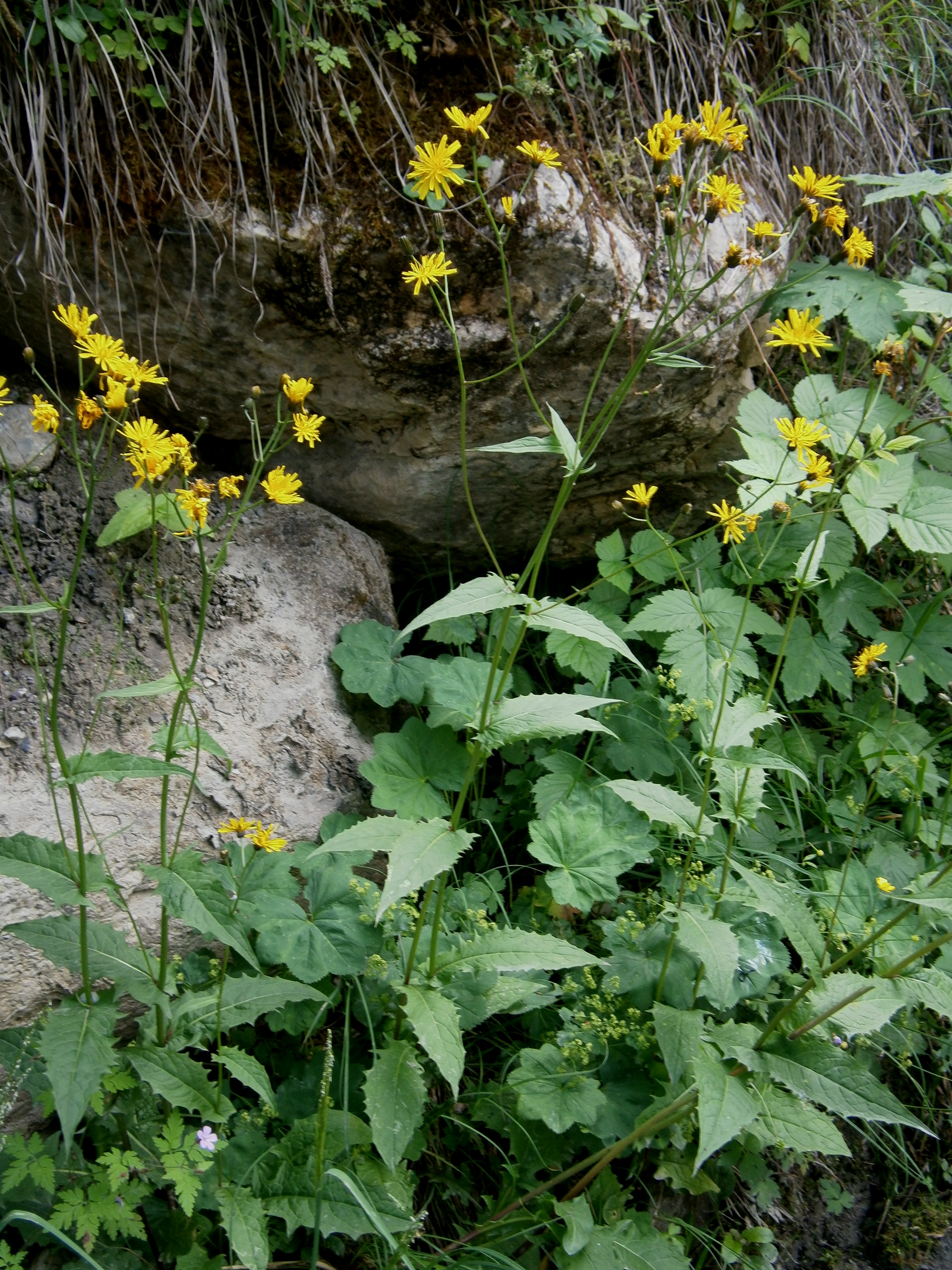 Crepis paludosa